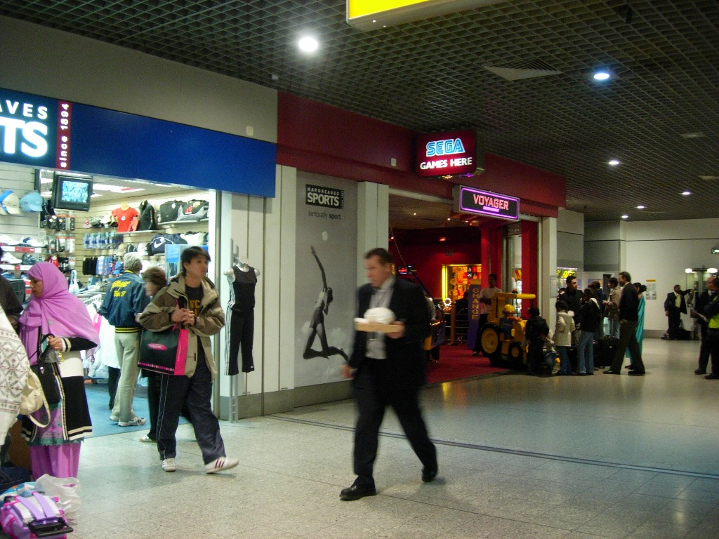 I took this picture myself on the 14th February 2005 in the Departures area of London's Heathrow Airport. It's the amusements arcade at the far end of the area.